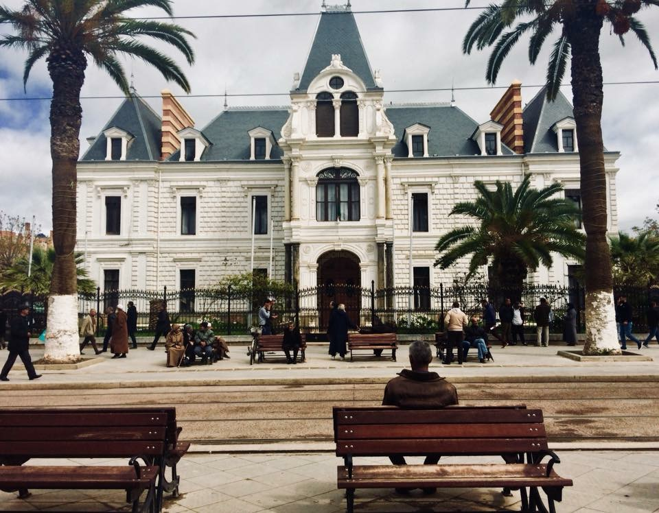 An other beautiful site from Sidi belabess The city hall.